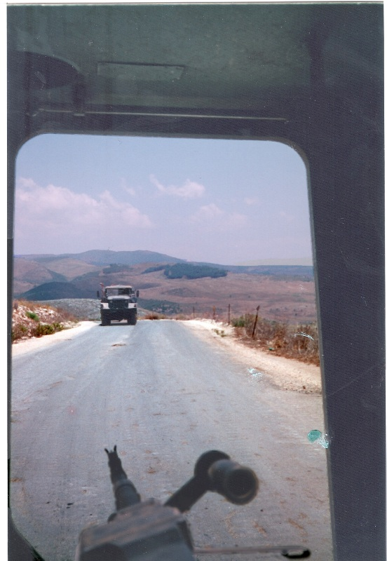 תמונה מתוך נגמ"ש (שצולמה על ידי ליאור) כאשר מאחורה ריאו של צד"ל- התמונה צולמה על ציר חנף, קצת דרומית למנצוריה- ברקע ניתן לראות את ג'בל רפיע וחלק קטן מהשמיס.